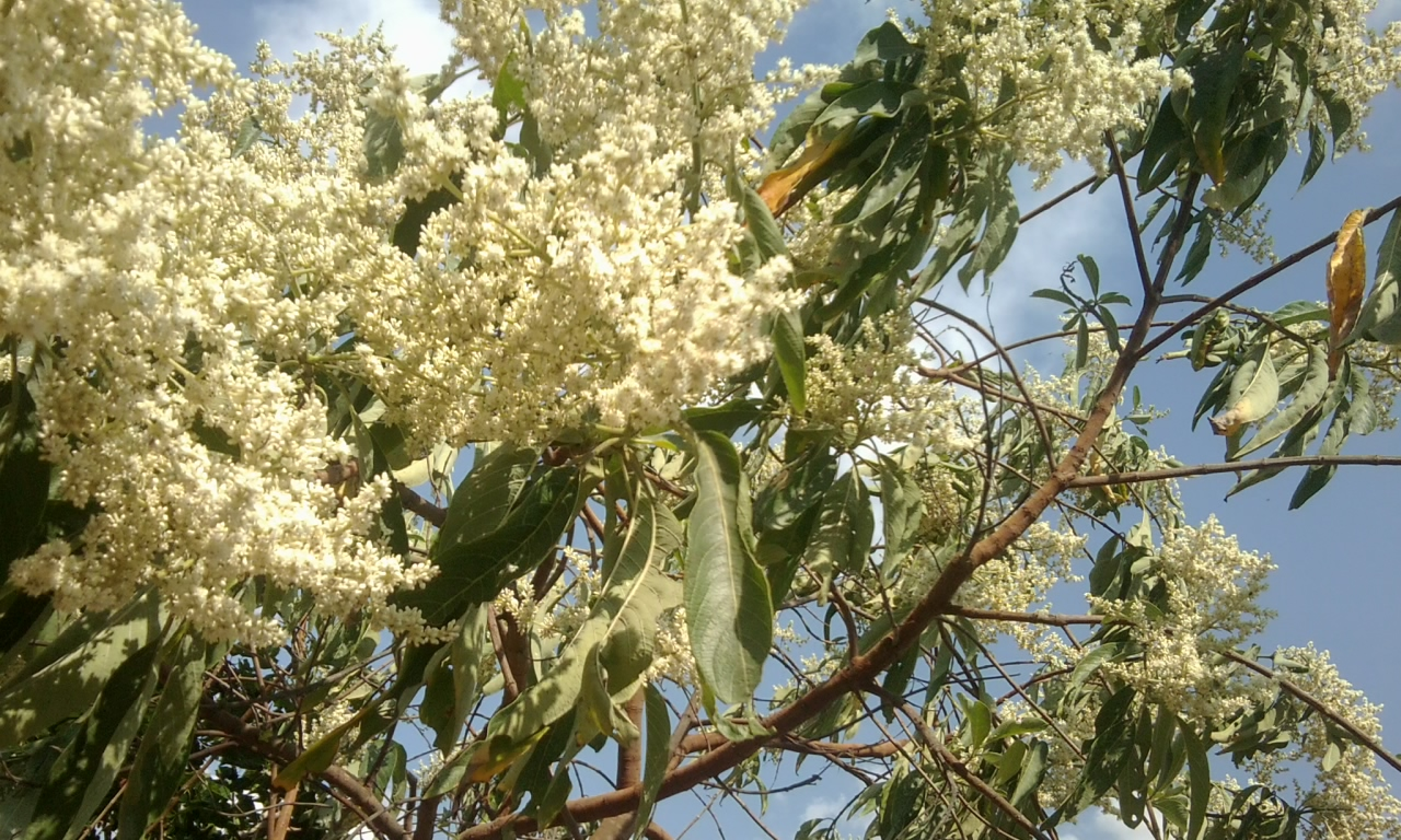 Flower of Wendlandia exserta during April in Nepal